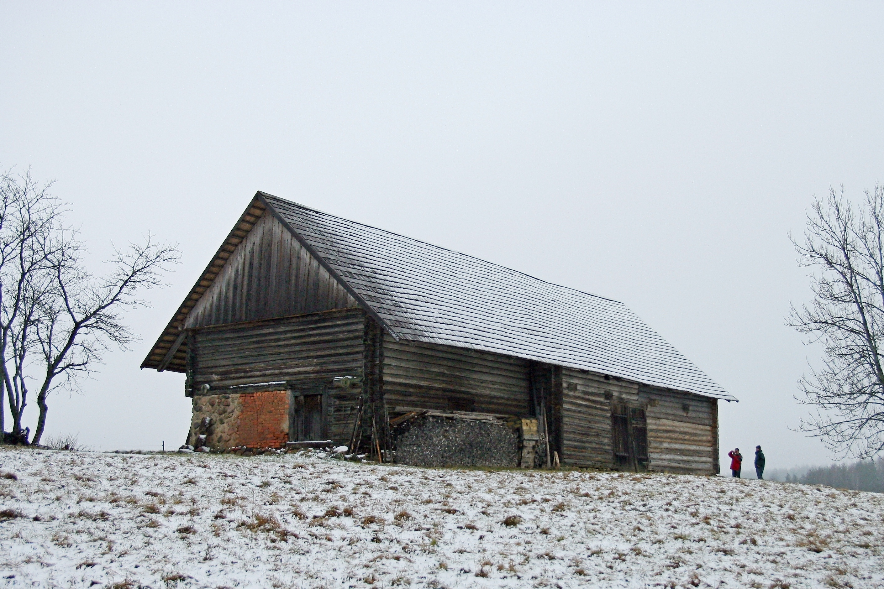 Mäekülä talu rehi on lõunatüüpi. Hoone vasakus nurgas paistab maakividest reheahju tagumine külg. Parempoolsel hooneosal (rehealune) on näha ühed rehealuse väravad, vastasküljel paikneb teine paar.